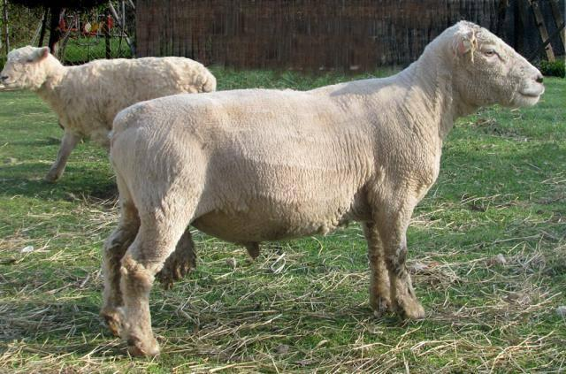 Adult Shorn Babydoll Ram (a blade-sheered ewe is behind him). This is the same ram as in photo 6th Happiness-Alan diGangi-Babydoll Sheep Ram Poppy 001 (in full wool)